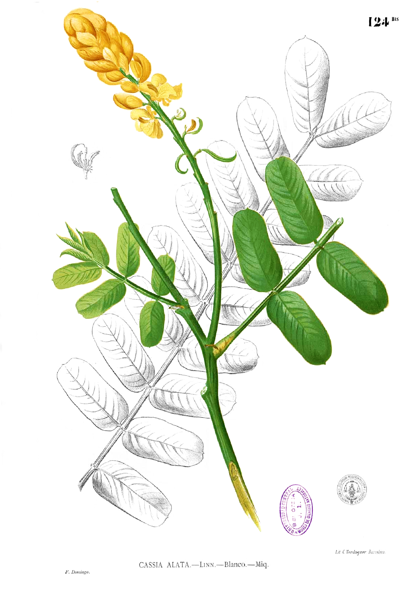 Plate from book